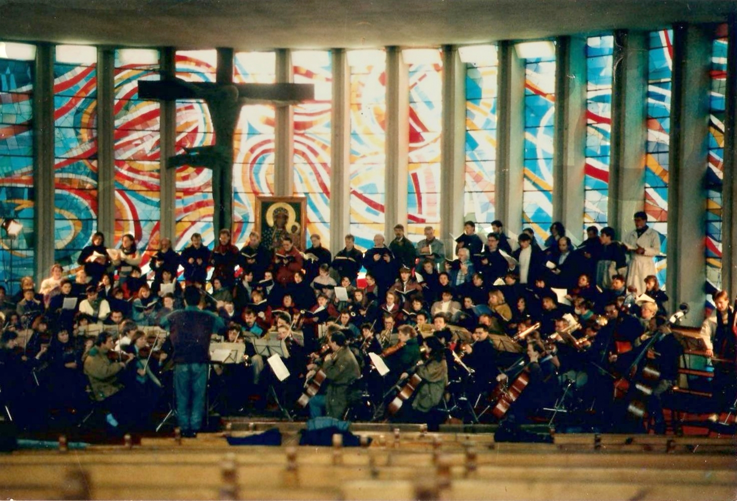 Johannes Brahms Ein deutsches Requiem rehearsal in the new part of Church of the Holy Cross in Szczecin, Pogodno (Stettin). Szczecin Philharmonic Symphony Orchestra, University of Szczecin Choir, Johann Sebastian Bach Choir and Orchestra (Hamburg), conductor: Axel Bergstedt.